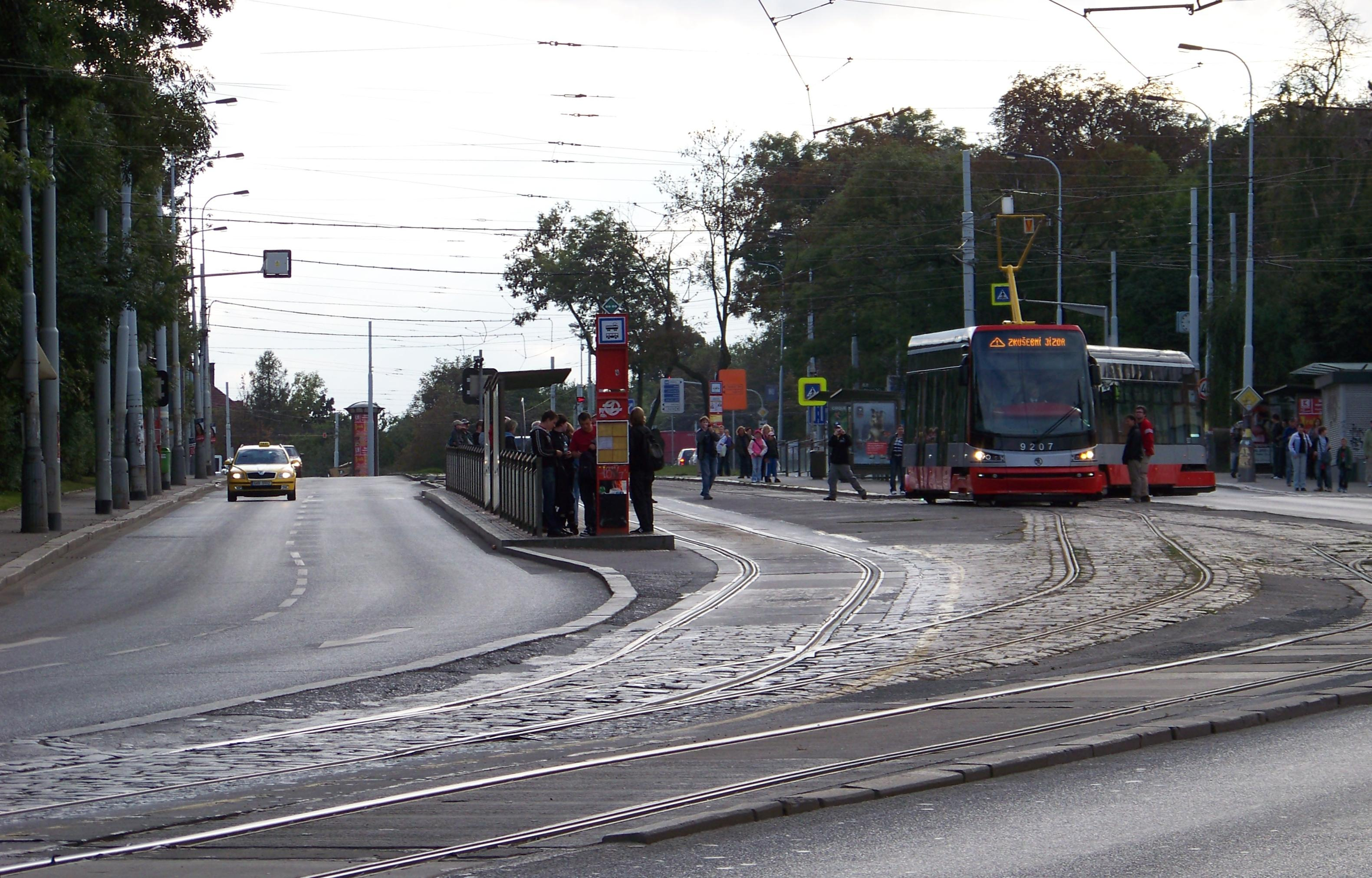 Prague-Střešovice, the Czech Republic. Patočkova street, a tram Škoda 15T. - Google Maps - Google Earth